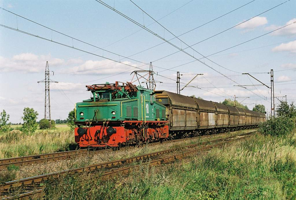 Electric locomotive EL2 No. 10 of the Konin Brown Coal Mine (KWB Konin) near the Pątnów power plant, Poland.